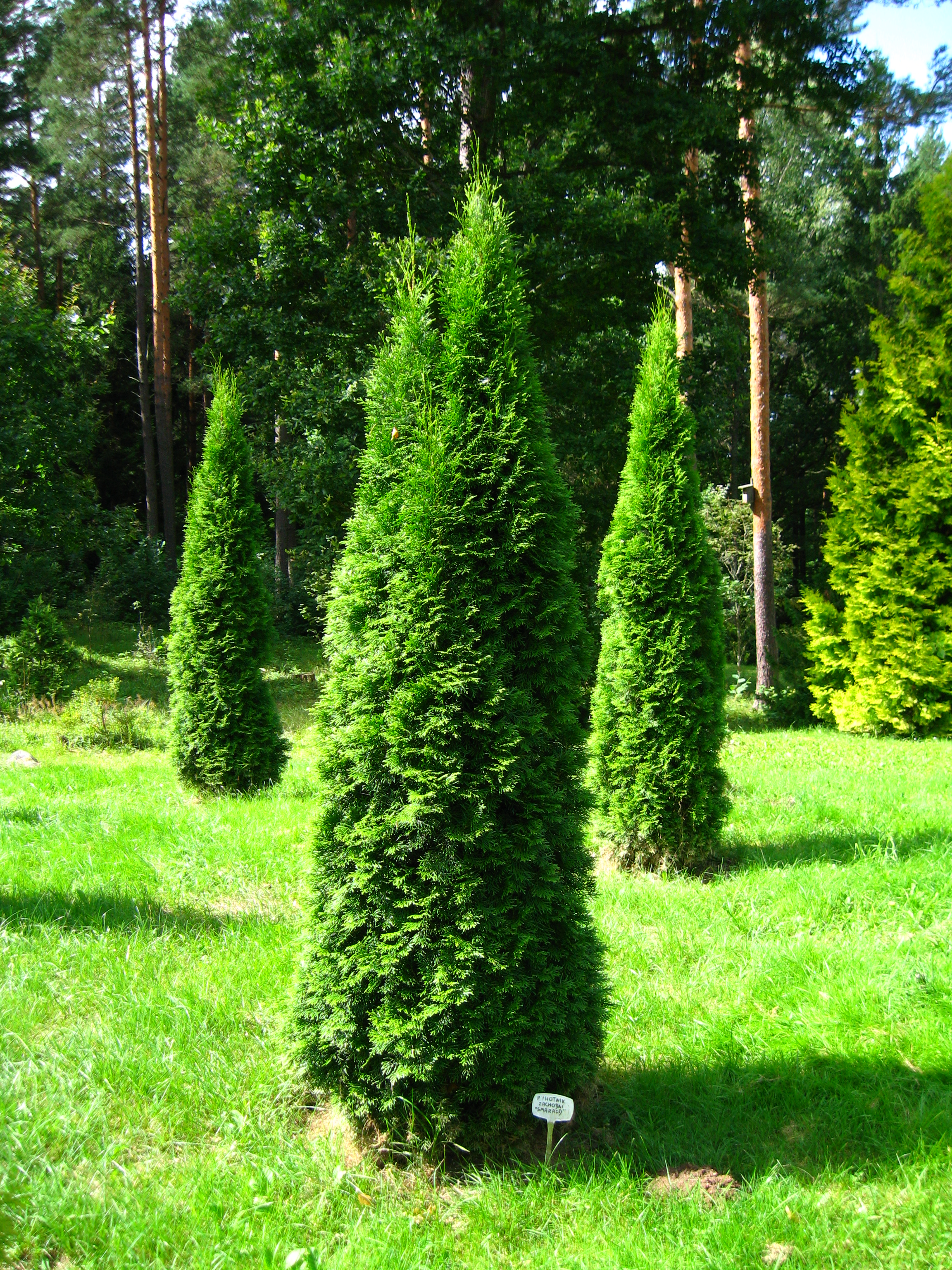 Northern Whitecedar var. Smaragd (Thuja occidentalis 'Smaragd')